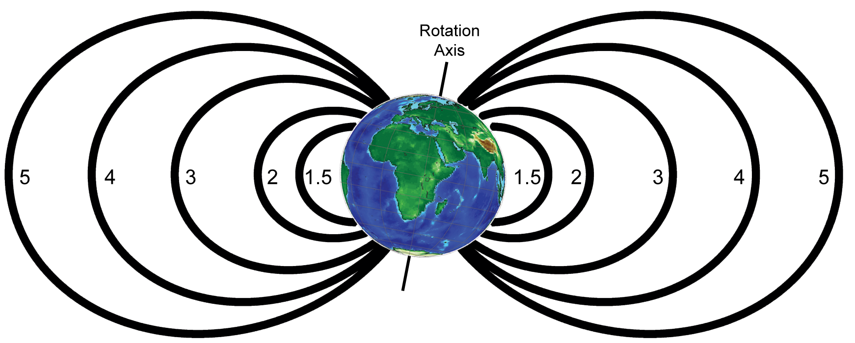 Plot showing field lines (which, in three dimensions would describe "shells") for L-values 1.5, 2, 3, 4 and 5. These field lines are 1.5, 2, 3, 4 and 5 Earth radii, respectively, from the center of the Earth in the plane of the Earth's magnetic equator (i.e., the horizontal direction). The Earth's magnetic poles and equator are offset approximately 11 degrees from the Earth's rotational poles and equator. These field lines assume a dipole model of the Earth's magnetic field.